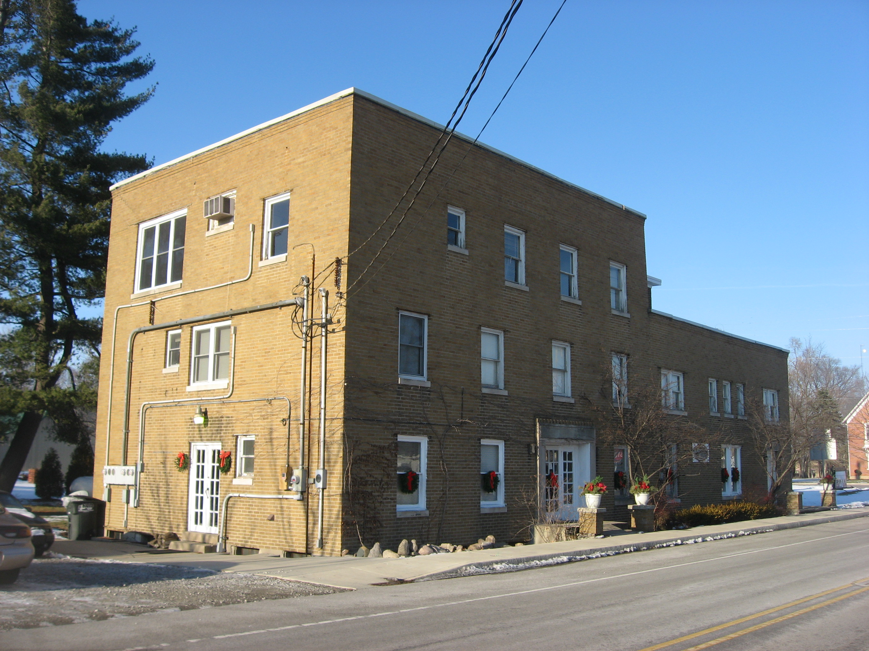 Southwestern and southeastern sides of the former Luckey Hospital, located on the western corner of the junction of U.S. Route 33 and State Road 109 at Wolf Lake in Noble Township, Noble County, Indiana, United States. Built in 1929, it is listed on the National Register of Historic Places.